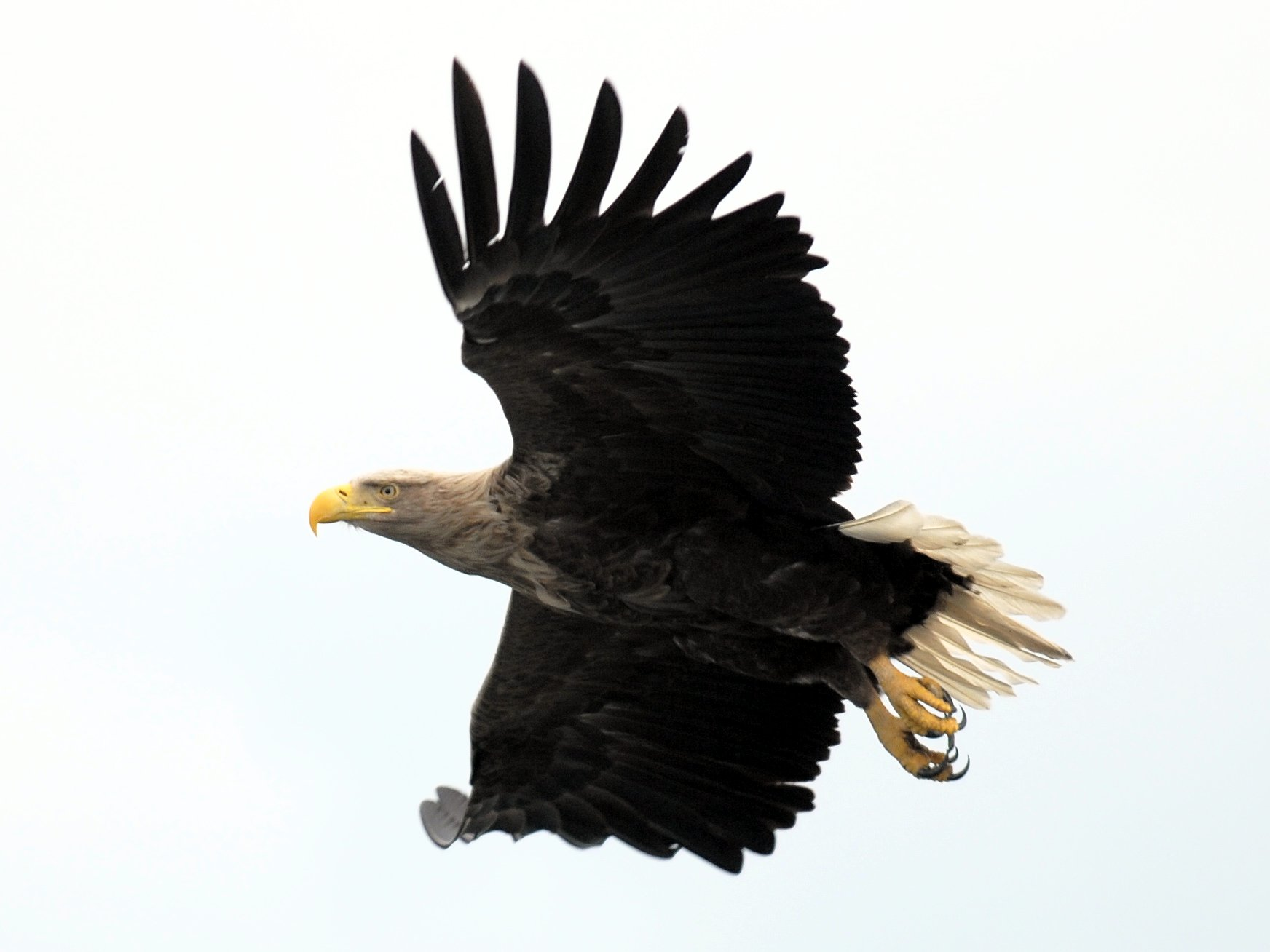 White-tailed eagle, Greifswalder Bodden, Germany